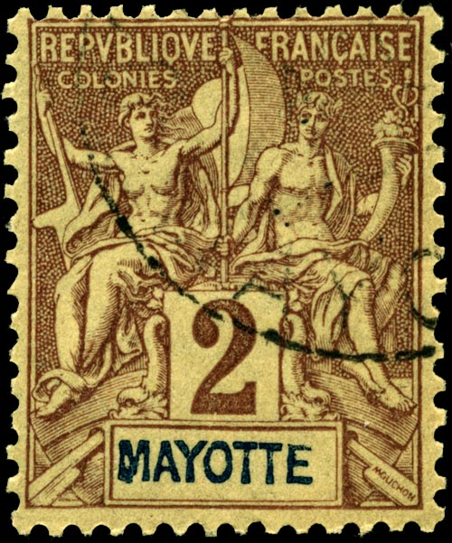 Mayotte 2c stamp of 1892